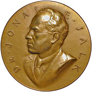 Bronze Duplicate of Jonas Salk Congressional Gold Medal (front). Gold Medal presented to Salk Jan. 27, 1956, by Health, Education and Welfare Secretary Marion B. Folsom.